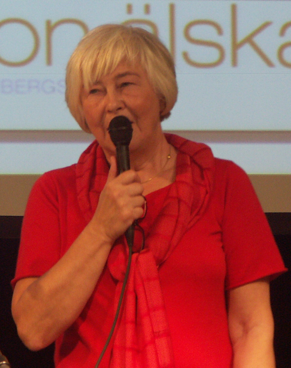 Swedish fashion designer and author Helena Henschen at the 2008 Gothenburg Book Fair.